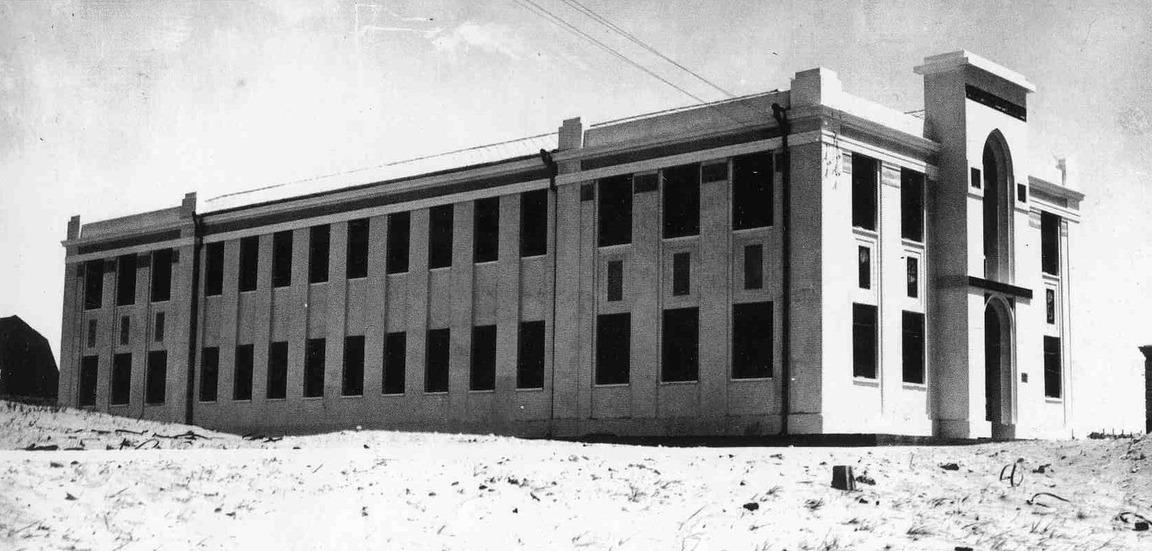 Municipal boys school on completion 1924. Photo by A. Soskin. Collection of the historical museum of Tel Avuv-Yaffo.